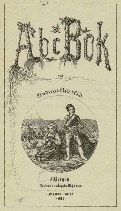 Title page of "Abc Bok", the first alphabet book in Norwegian (Nynorsk), by Andreas Austlid.